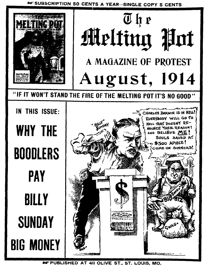 Melting Pot Magazine cover, August 1914 depicting evangelist Billy Sunday, the subject of one of the articles in that issue.